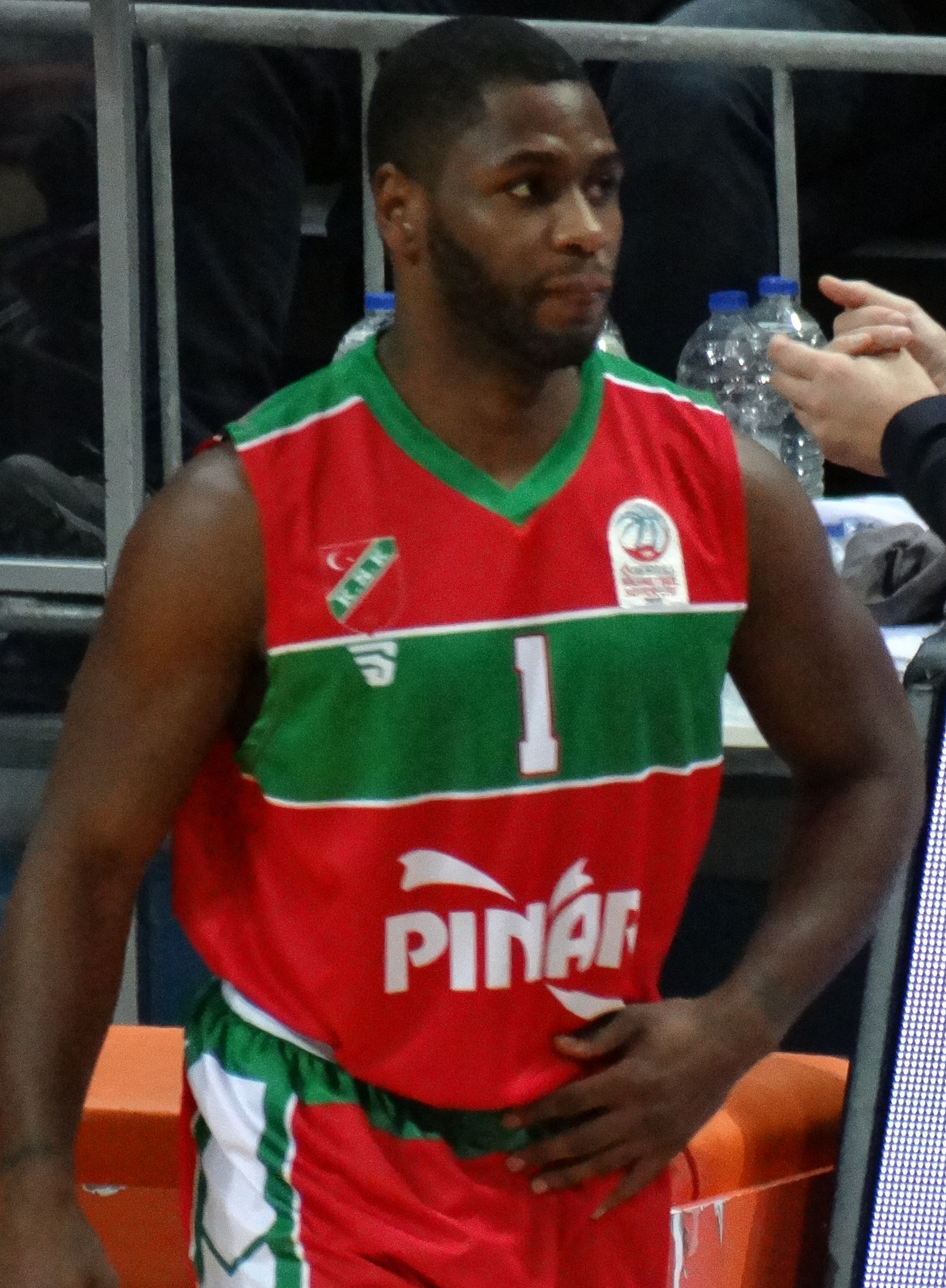 Erving Walker 1 Pınar Karşıyaka TSL 20181204